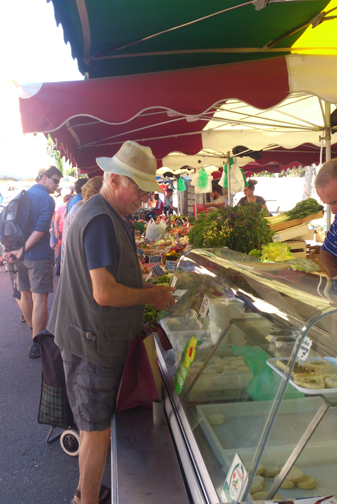 Farmhouse cheese "Picodon" is easily spotted on Drôme-Ardèche village market, with AOP's sticker (here bottom right).